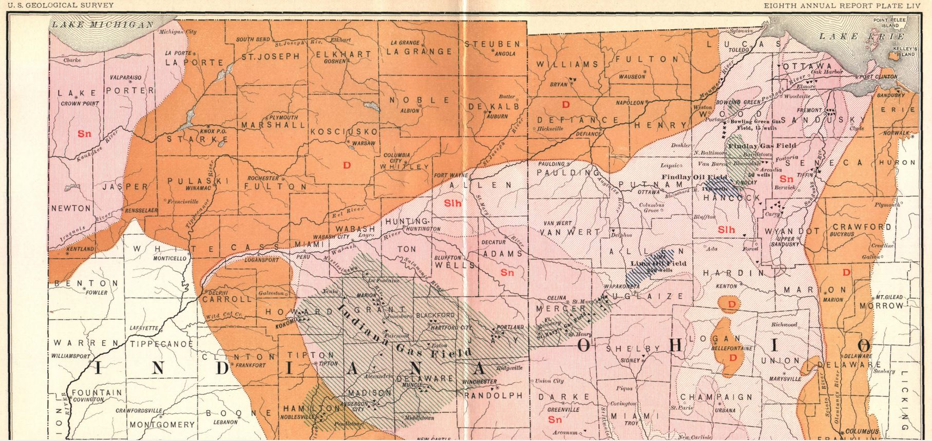 Indiana-Ohio oil and gas fields